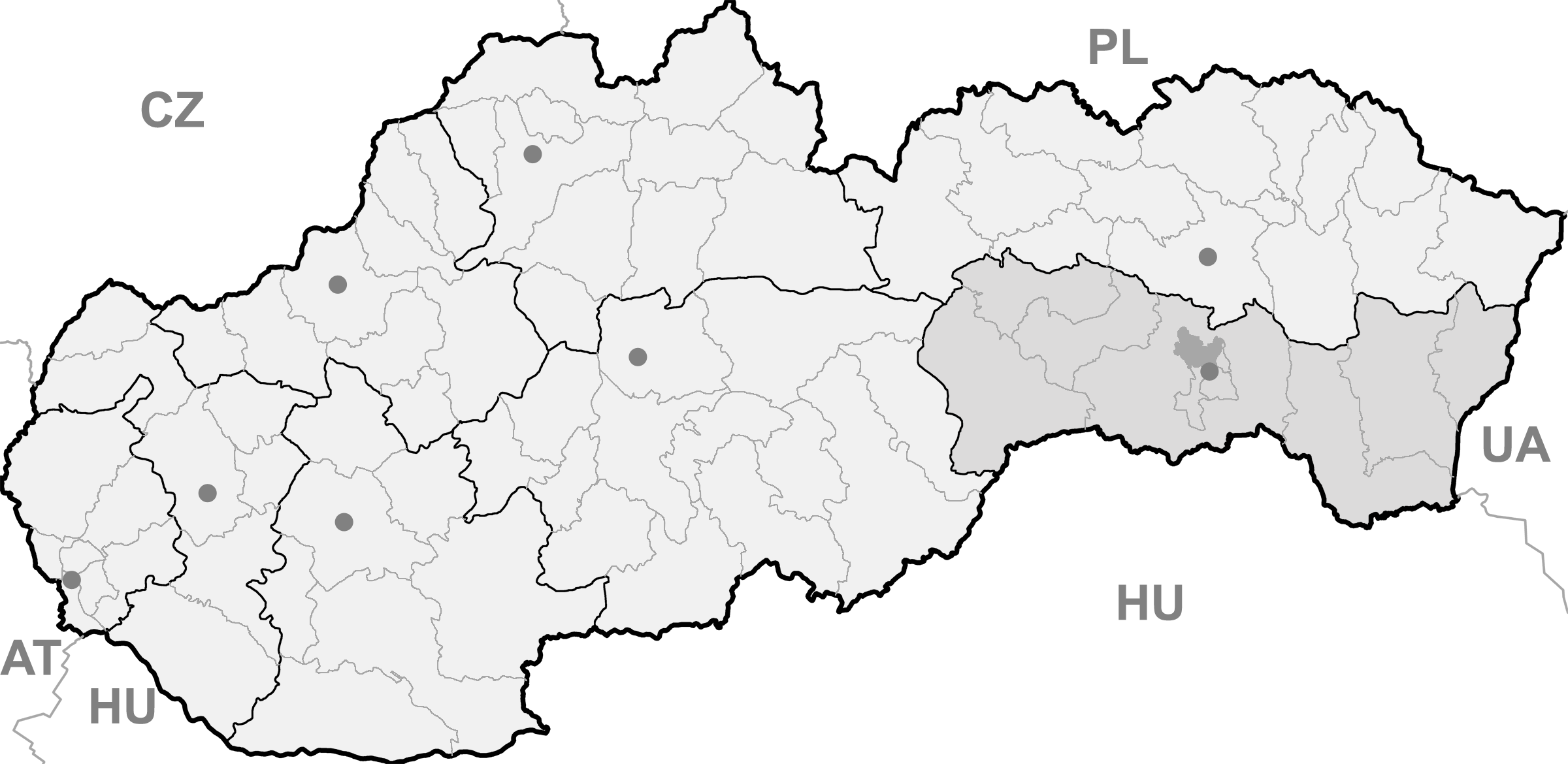 Map of Slovakia, Kosice I district and Kosice region highlighted